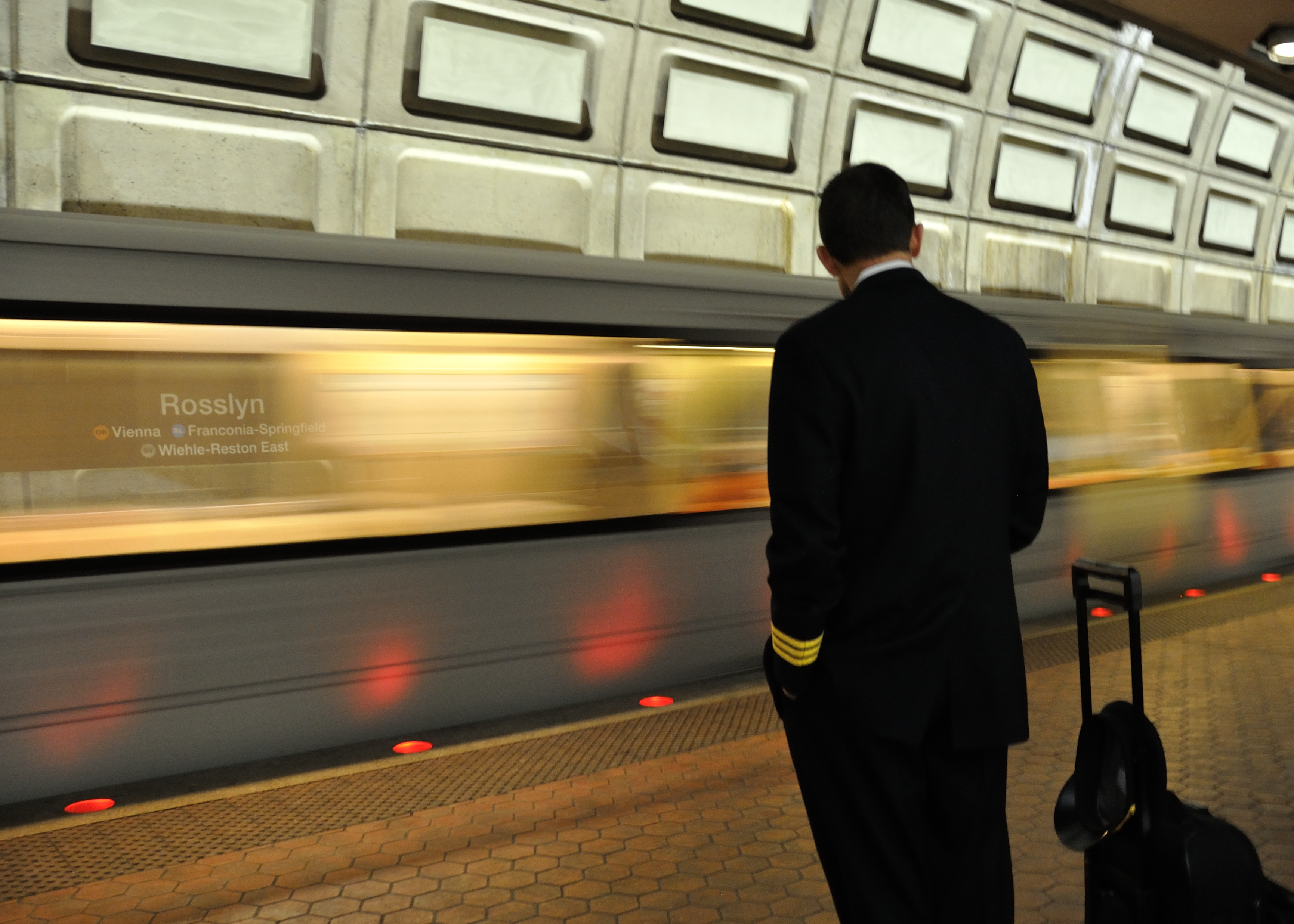 Man stands in the Rosslyn Metro Station in Arlington, Virginia as a train passes.